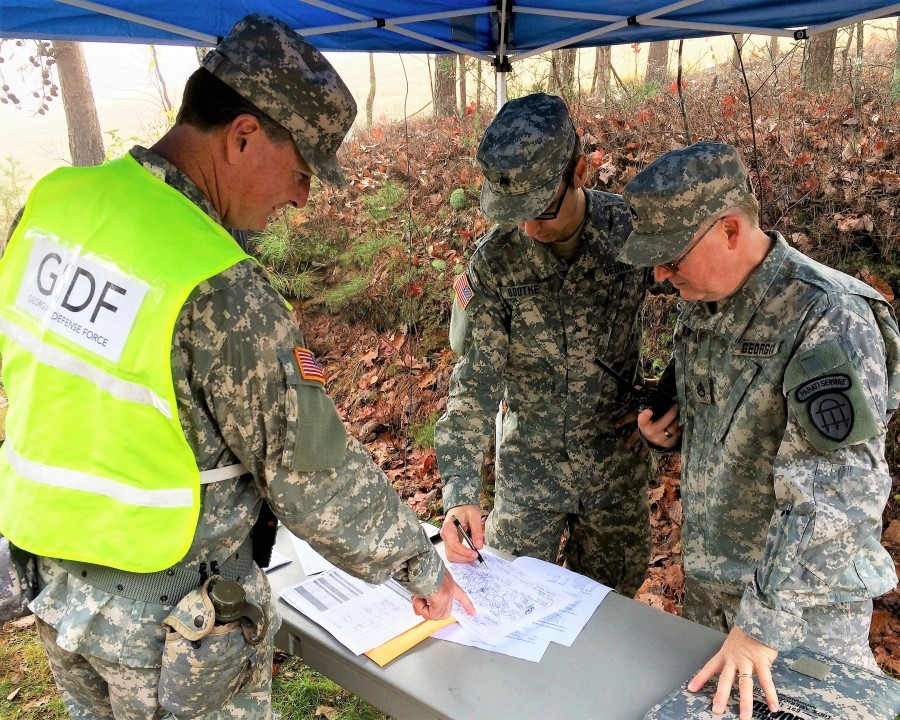 Members of the Georgia State Defense Force assist with crowd and traffic control during the annual Wreaths Across America event at the Georgia National Cemetery in Canton, Georgia.